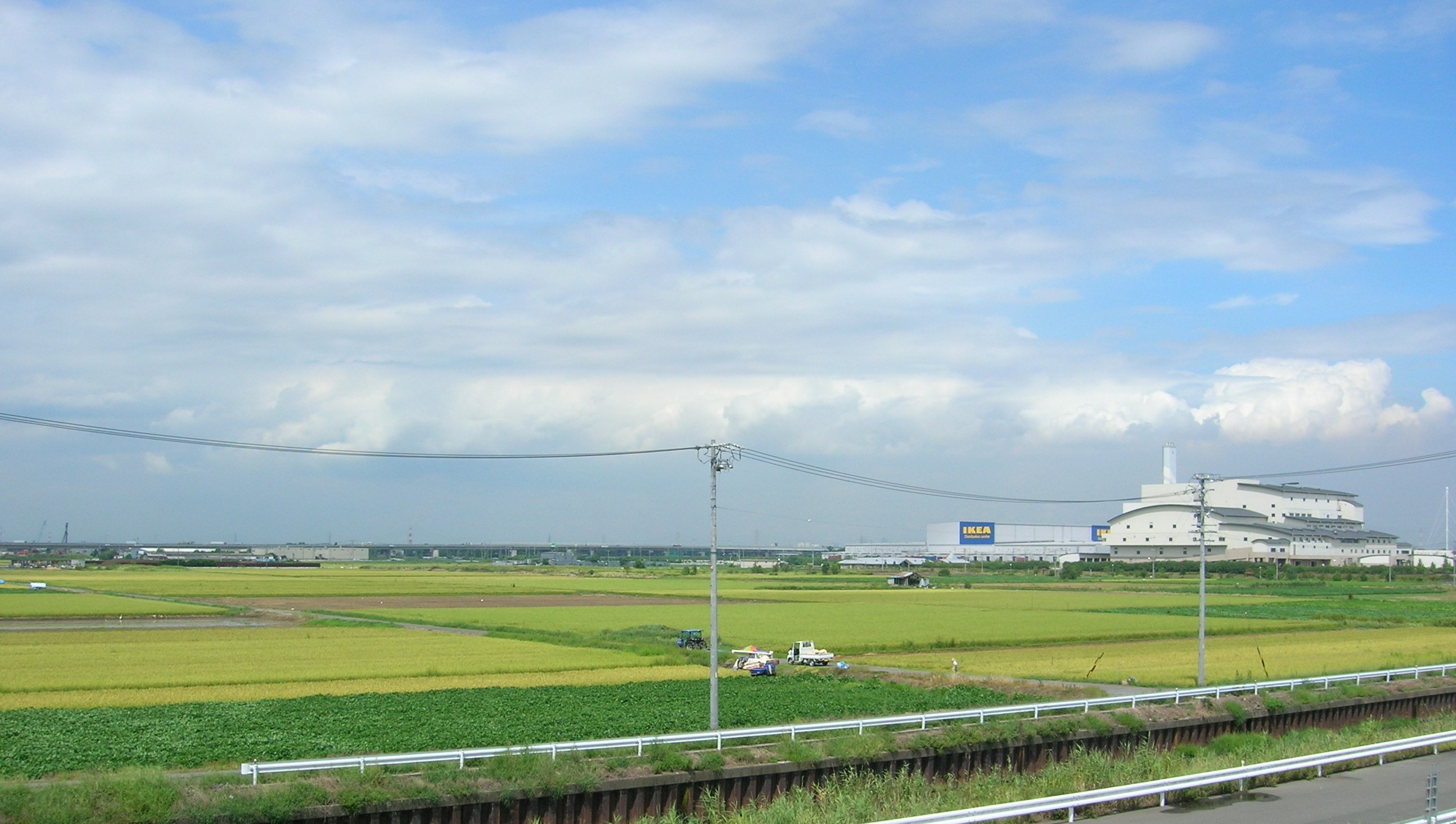 Nabeta polder, Hachiho clean center and IKEA's shipping storage. Loc: Yatomi city, Aichi Prefecture, Japan. ja:2011年現在の鍋田干拓地。農地の右奥に八穂クリーンセンターとIKEAの物流倉庫が見える。 撮影場所 愛知県弥富市鍋田町八穂